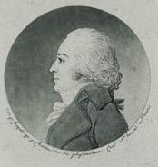 Physionotrace de Ouint Ondaatje, dessiné par J. Fouquet et gravé par G.L. Chrétien